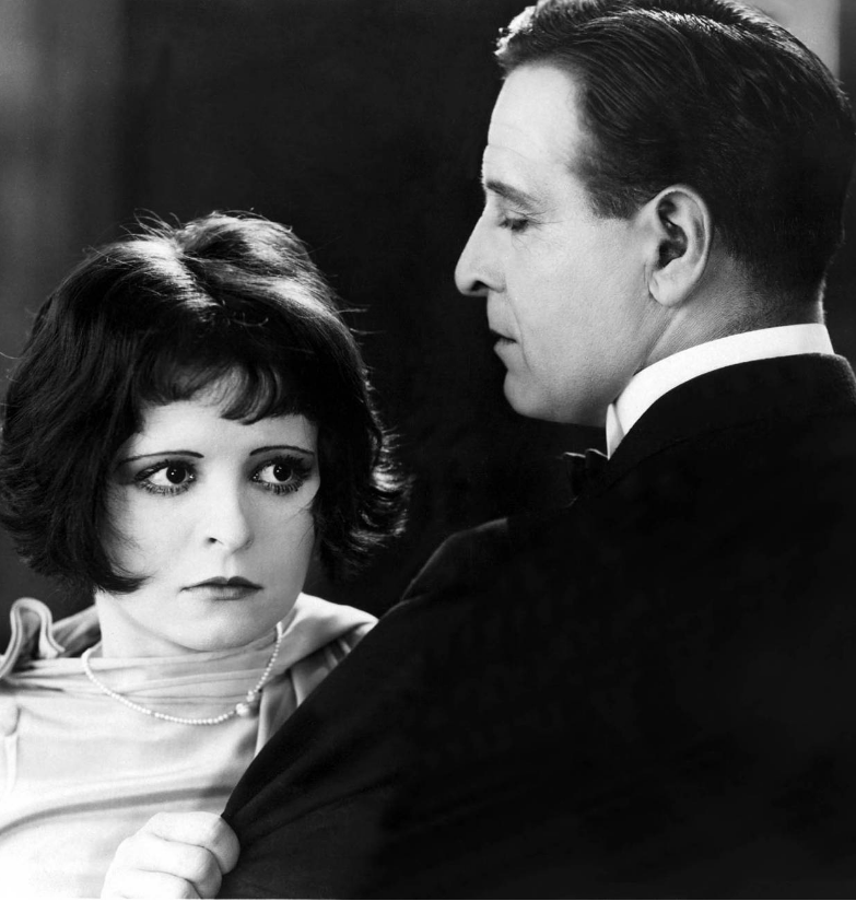 Publicity shot for the film Dancing Mothers (1926) with Clara Bow and Conway Tearle.